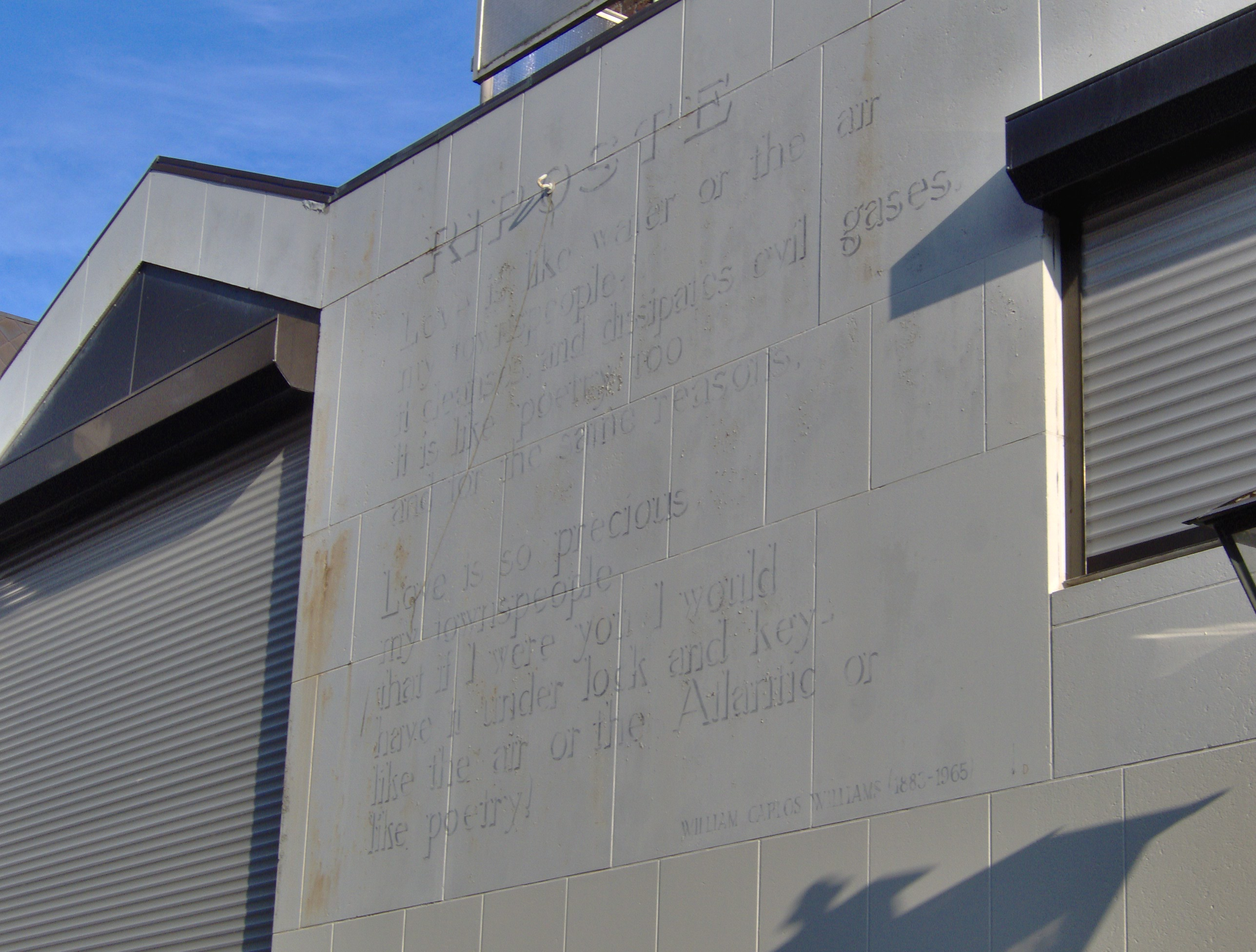 The poet Riposte of the American poet William Carlos Williams on a wall of the building at Breestraat 81, Leiden, The Netherlands, currently hardly visible because of its bad condition.